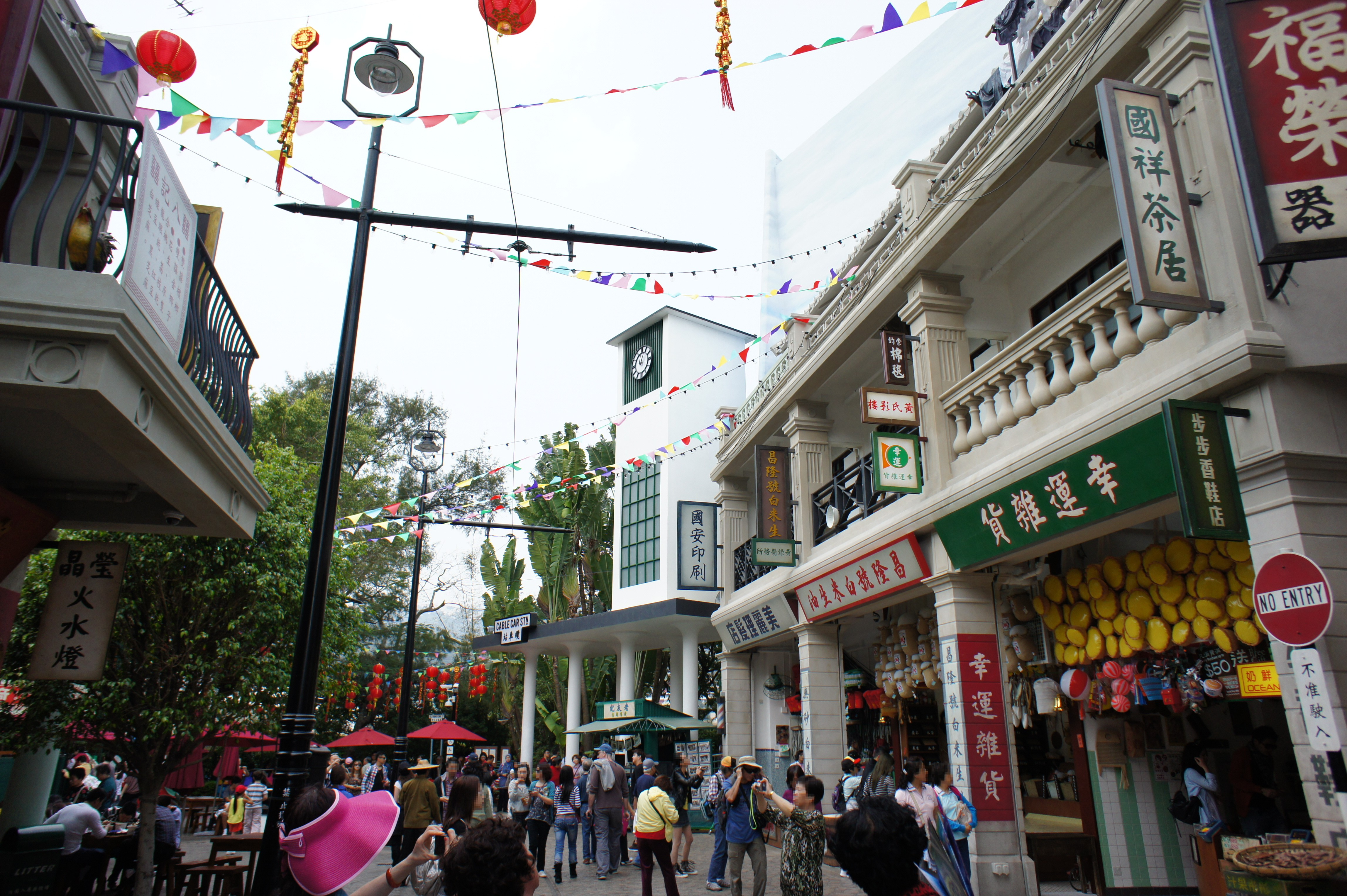 Streets of Old Hong Kong, Ocean Park, Hong Kong.